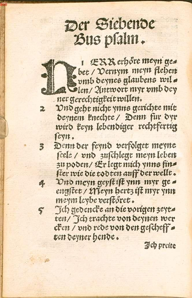 The seventh penitential psalm of Martin Luther, translated into German and printed in Wittenberg